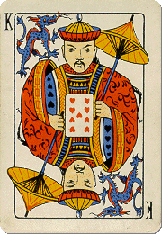 The King holding the 9 ♥. From a deck of cards produced in London by Chas Goodall & Son for the card game of Khanhoo, which was introduced in England in 1891 by the Consul in China Sir William Henry Wilkinson.